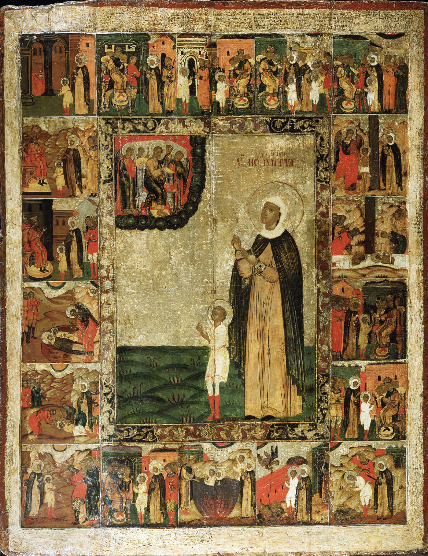 The life of Saint Quiricus and Saint Juliet. Russian icon.